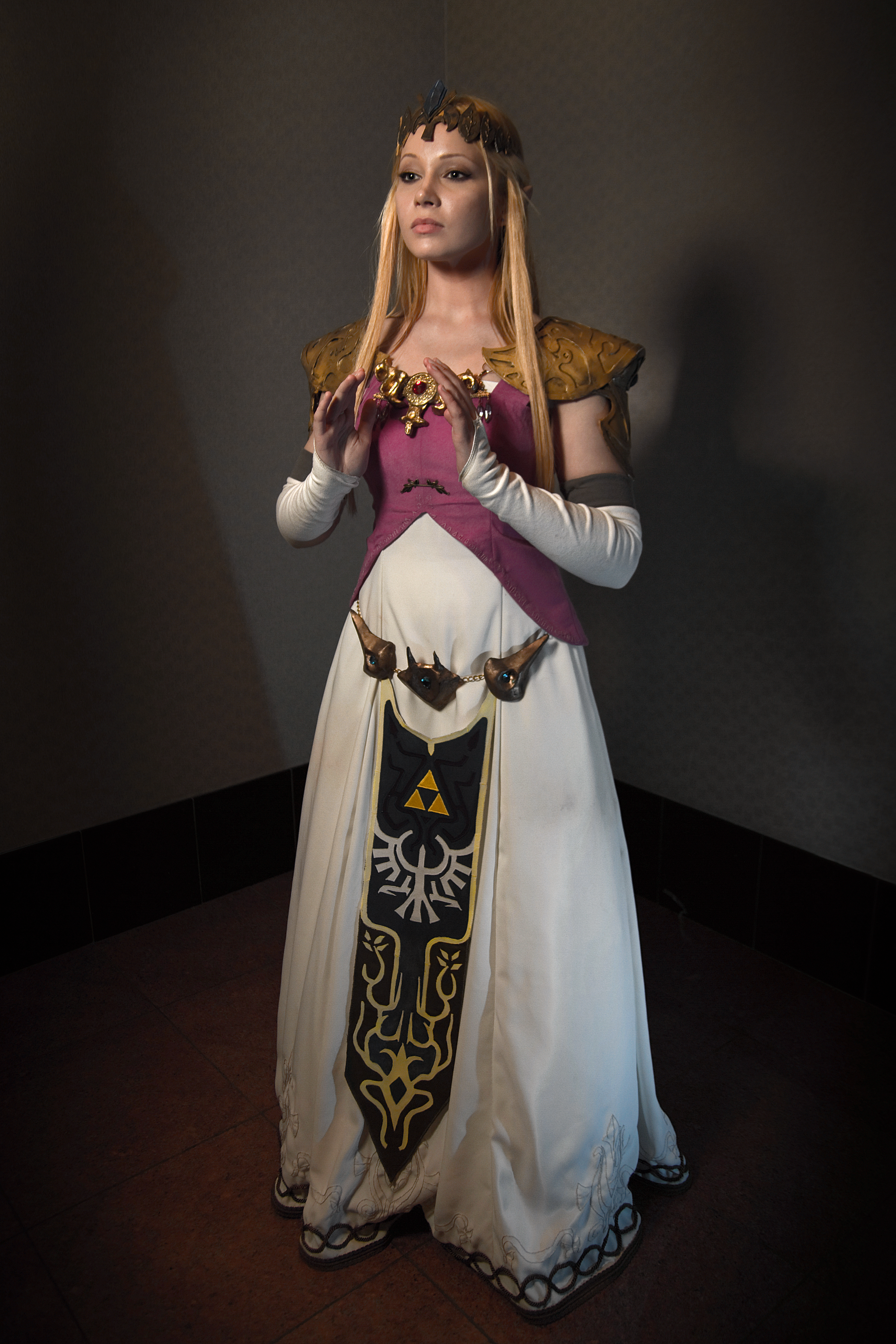 Description from Flickr: "I wasnt happy with this one. couldn't get the same glow as I did in the closeups and the colors were off and needed to much correcting. The effects of running a beauty dish from a external flash and not having enough output. Still, I really wanted people to see her whole costume, it was very well done."